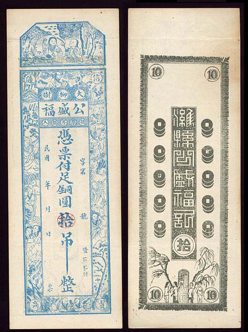 Vertical local banknote from the Republic of China.